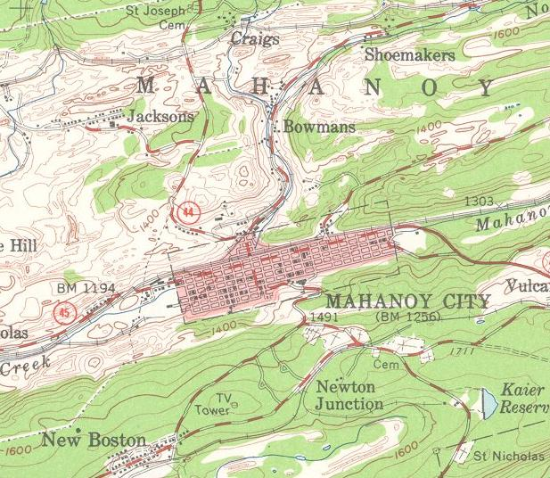 1955 USGS map of Mahanoy City